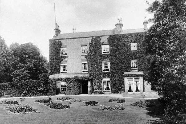 Normanton House (now in Derby} was built in the 1740s for the Dixie family. In the 1900s it was part of Homeland School